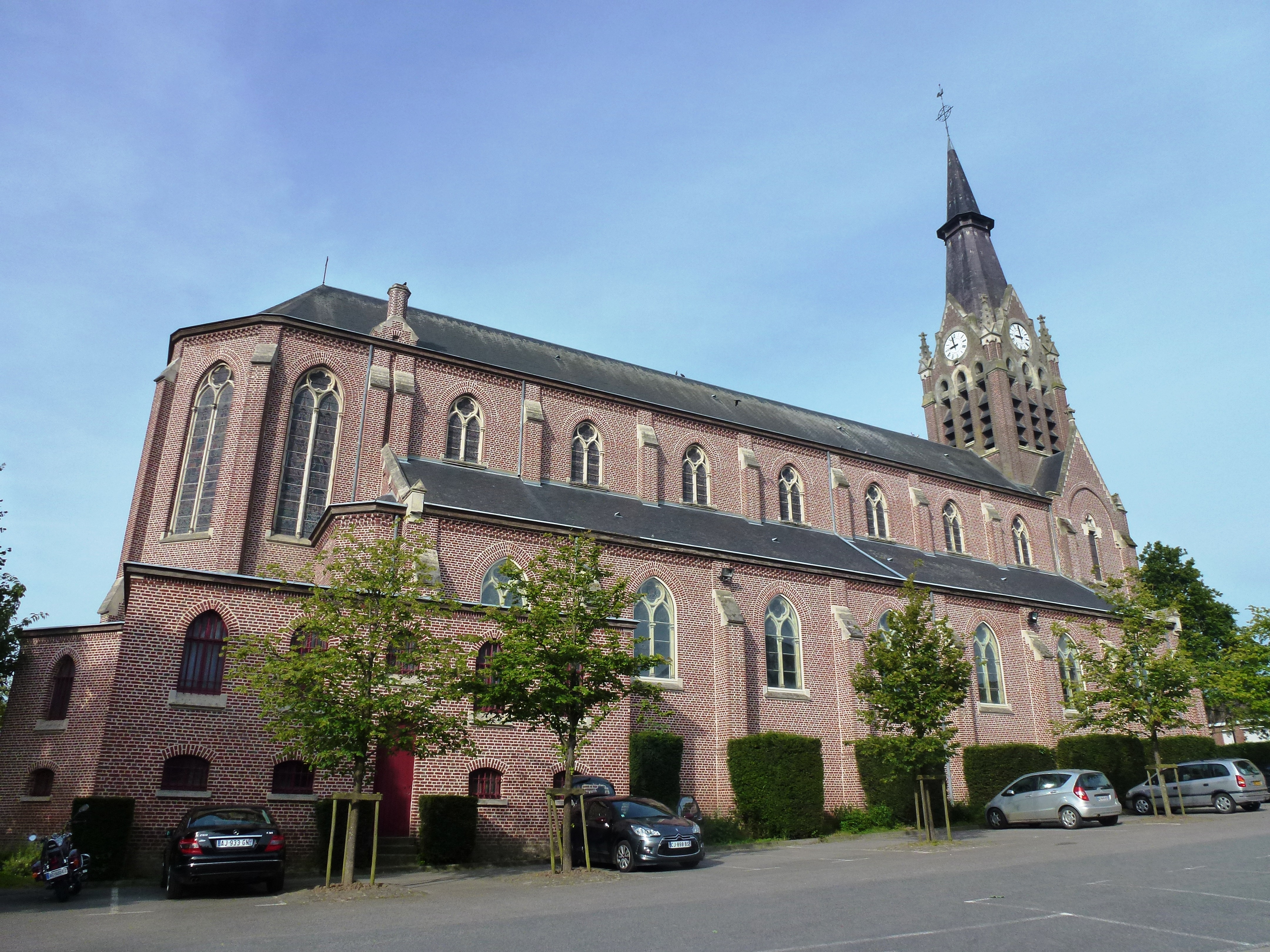 Église Saint-Pierre de Godewaersvelde